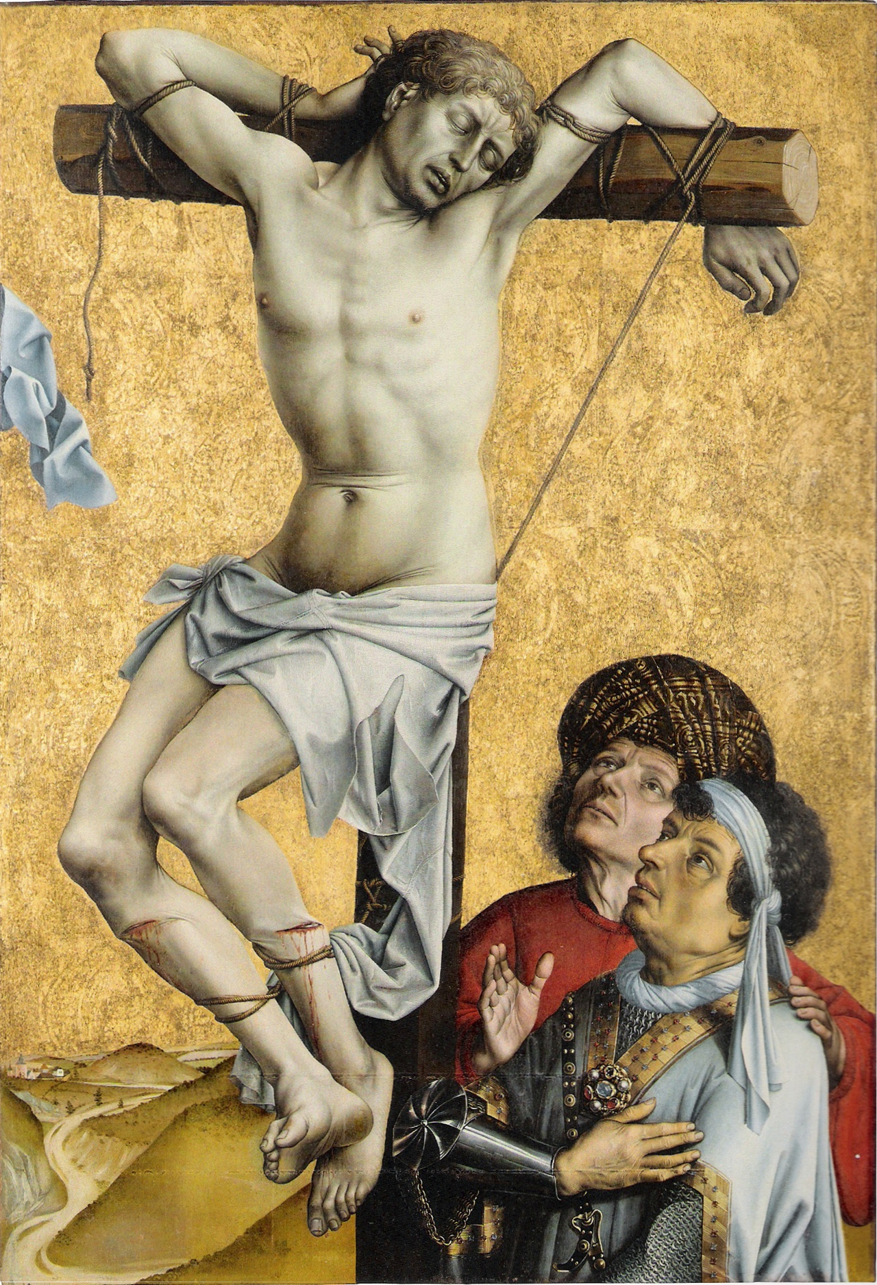 Crucified Thief by the Master of Flémalle Liebieghaus Skulpturensammlung